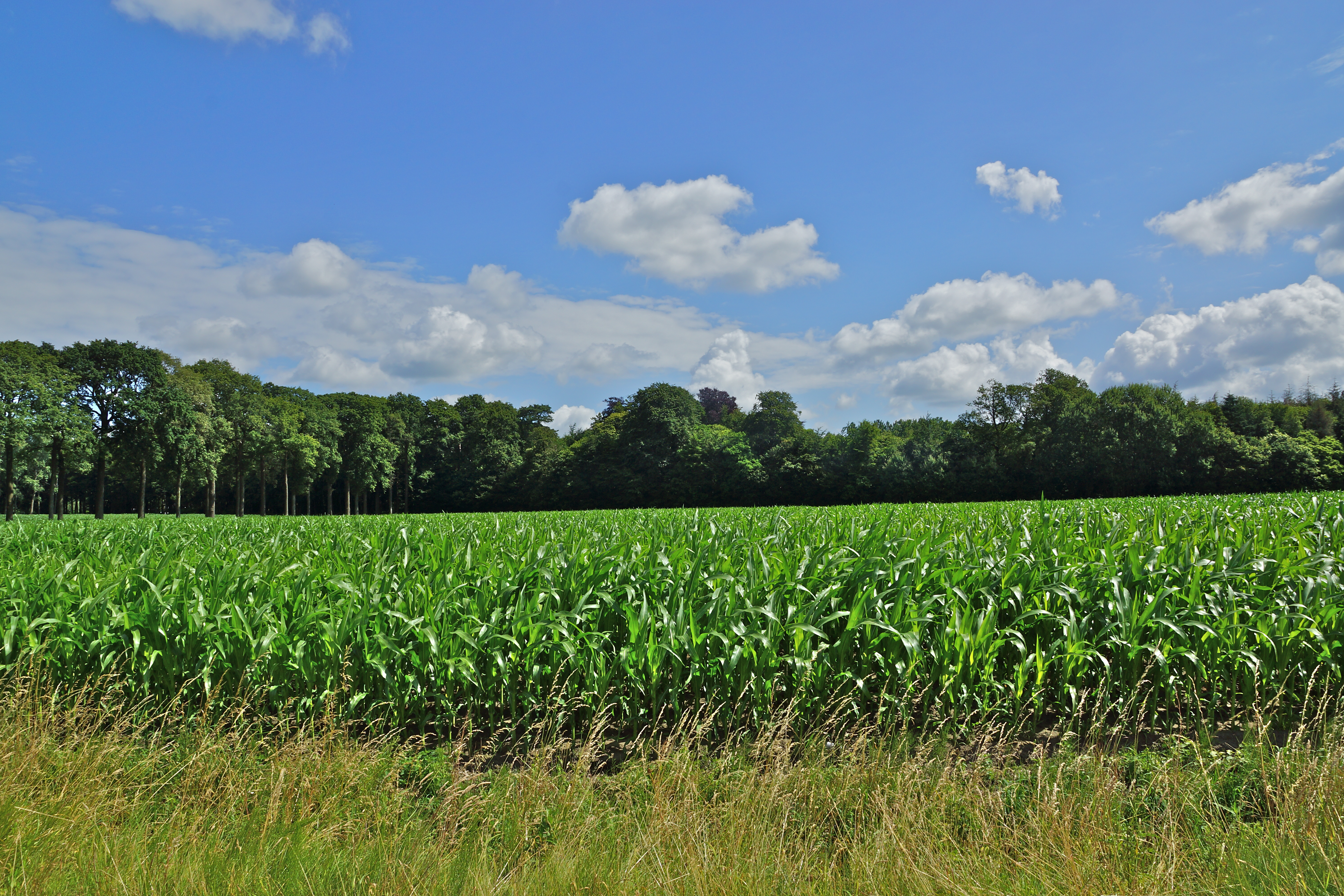 Oostkamp (Waardamme), Belgium: Rooiveldforest